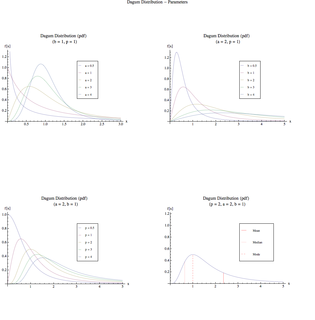 The probability density function (pdf) of the Dagum distribution under different parameter specifications.